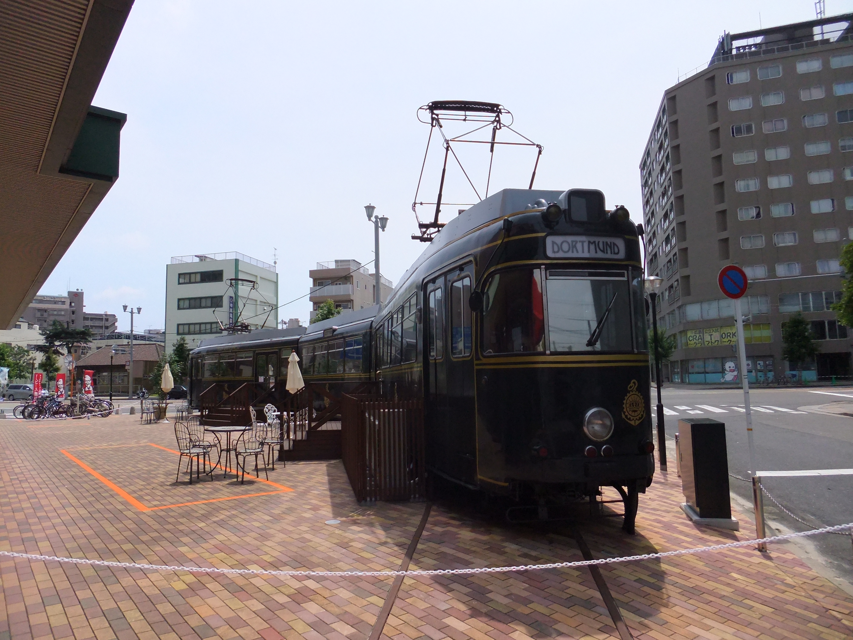 Former Hiroden 70 series tramcar for the Train Vert Express restaurant